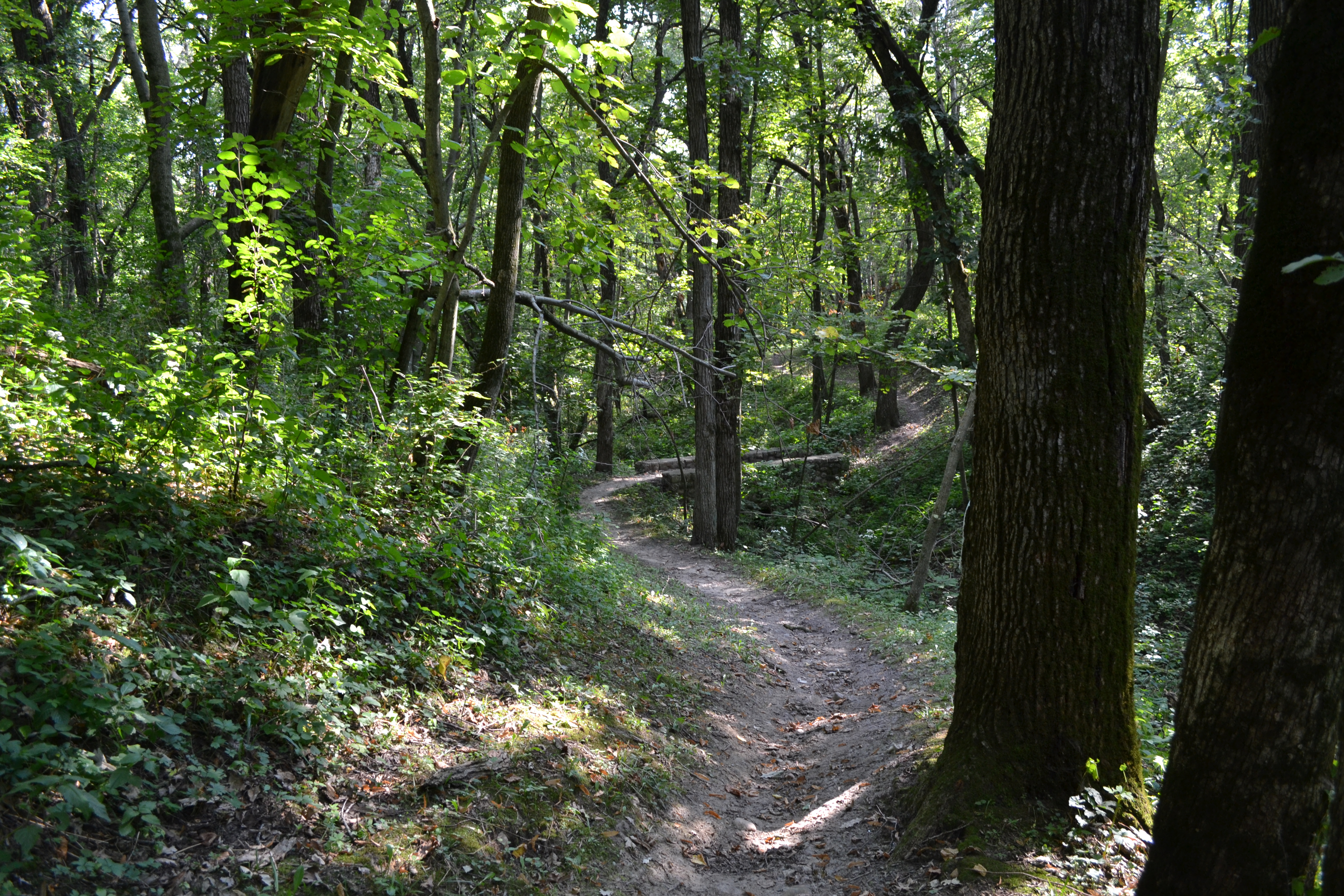 Pilot Knob State Park, Trail Area (Area 6a-6c), South of the junction of Iowa Highways 9 and 332 Forest City